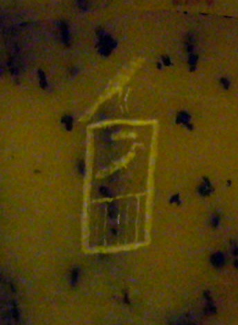 Close up of the name of the Egyptian king Khaba on a stone vessel in the Petrie Museum (London)